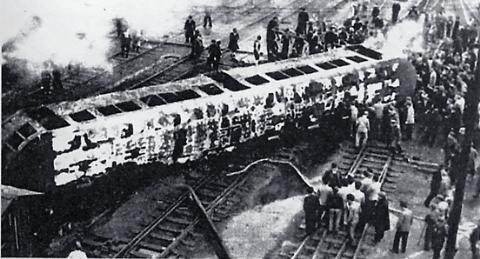 Train derailed and caught fire at Ajikawaguchi Station, Osaka, Japan (西成線安治川口駅列車脱線火災事故)